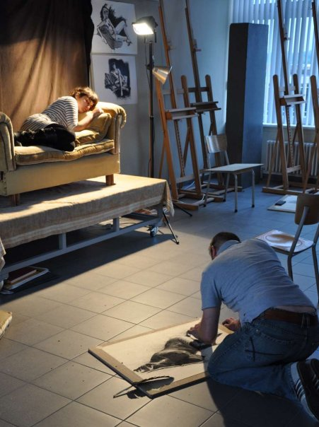 Artist at work, drawing a model with charcoal